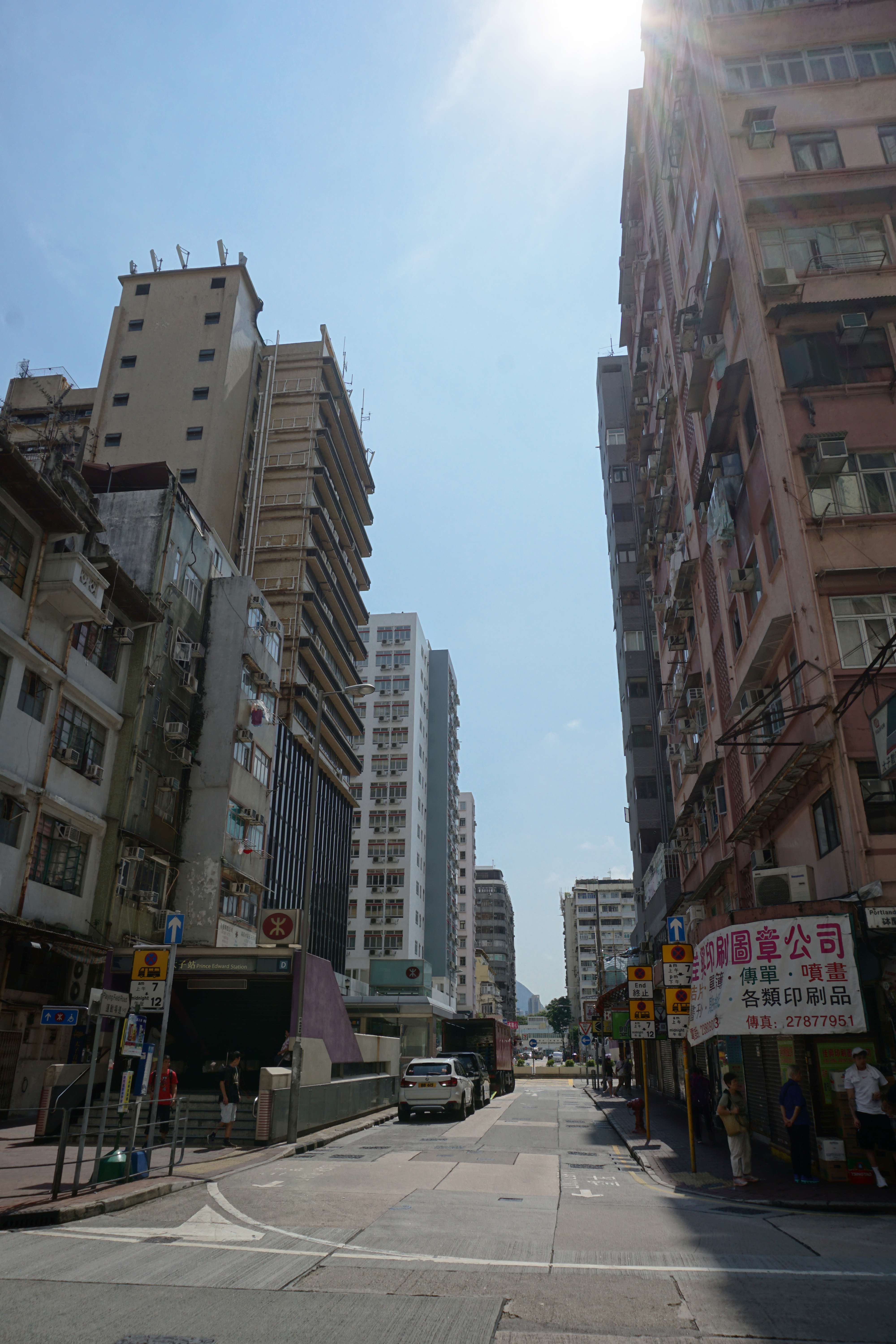 Playing Field Road in Prince Edward, Hong Kong.